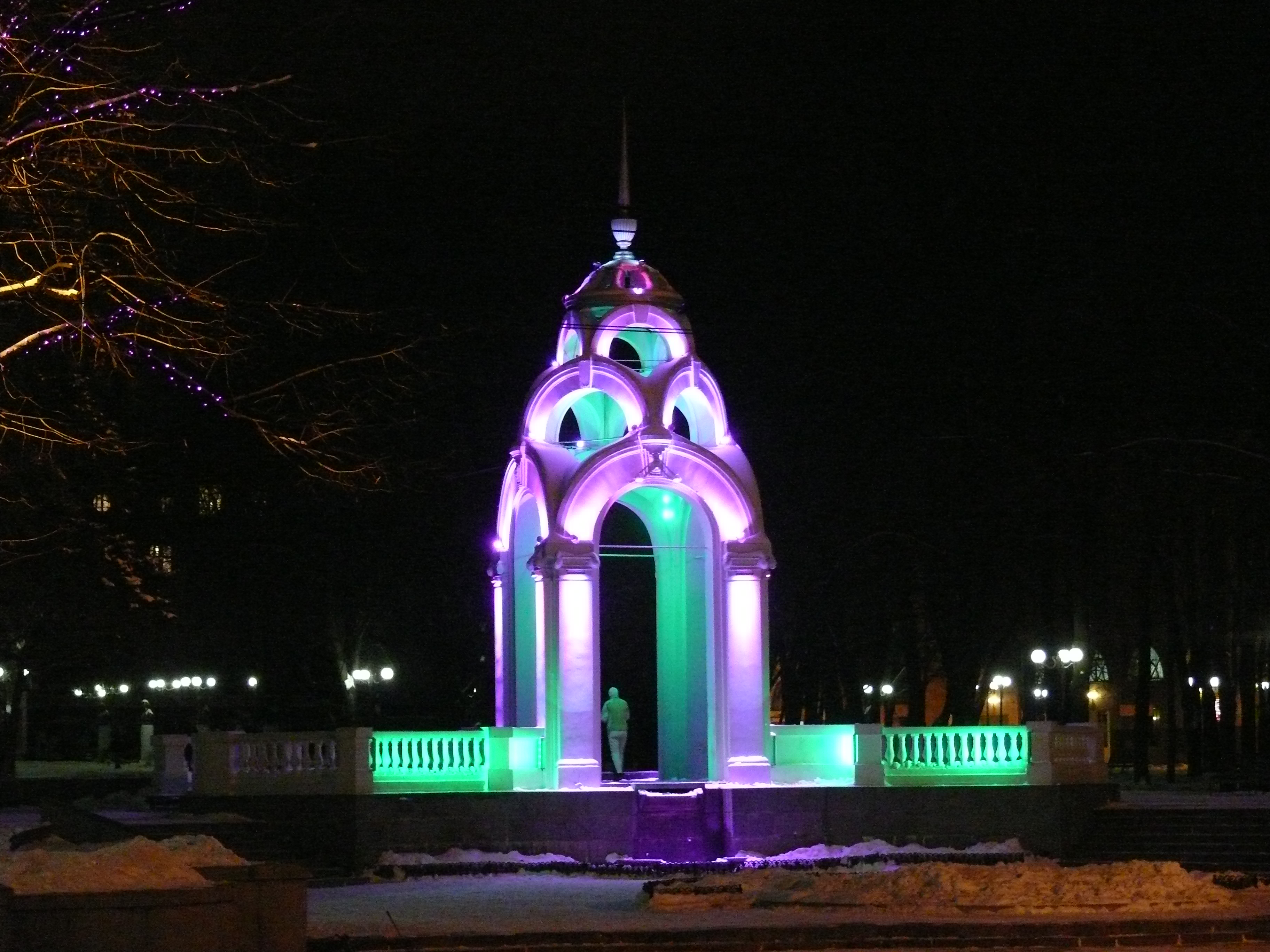 Kharkov. Sumskaya Street. Glass Struya before New Year. Night.